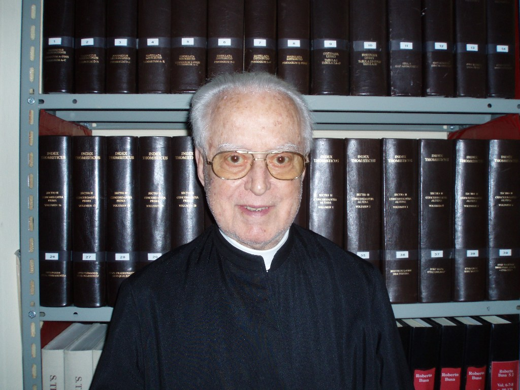 Father Roberto Busa - In the background the Index Thomisticus. The picture was taken in Gallarate (Italy) where Father Busa lived.